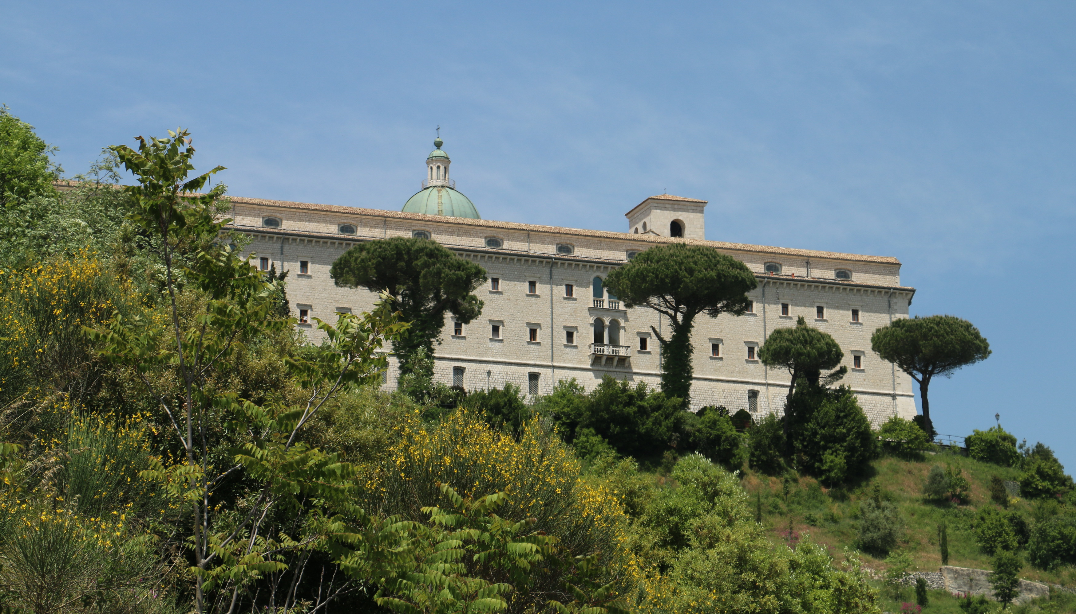 Abbey of Monte Cassino Native nameAbbazia di MontecassinoLocationMontecassino, Lazio, ItalyCoordinates41° 29′ 29″ N, 13° 48′ 52″ E Authority control VIAF: 223343083 LCCN: n80001255 GND: 1002981-3 SUDOC: 030113083 BNF: 12159420j WorldCat